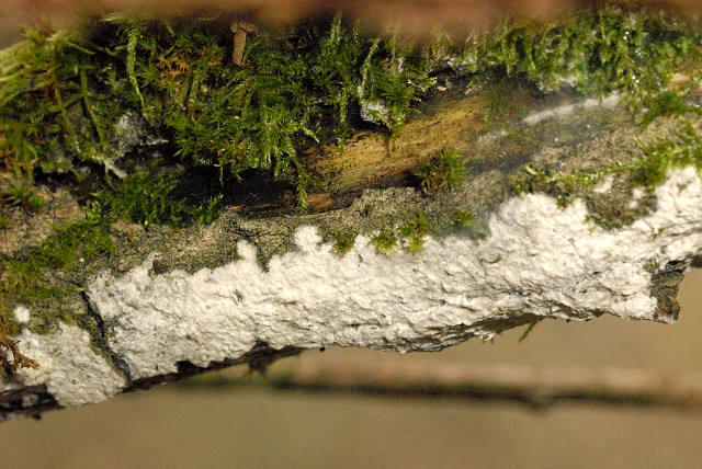 Hyphoderma praetermissum from Commanster, Belgium. If you think this is a different taxon, please contact James Lindsey.